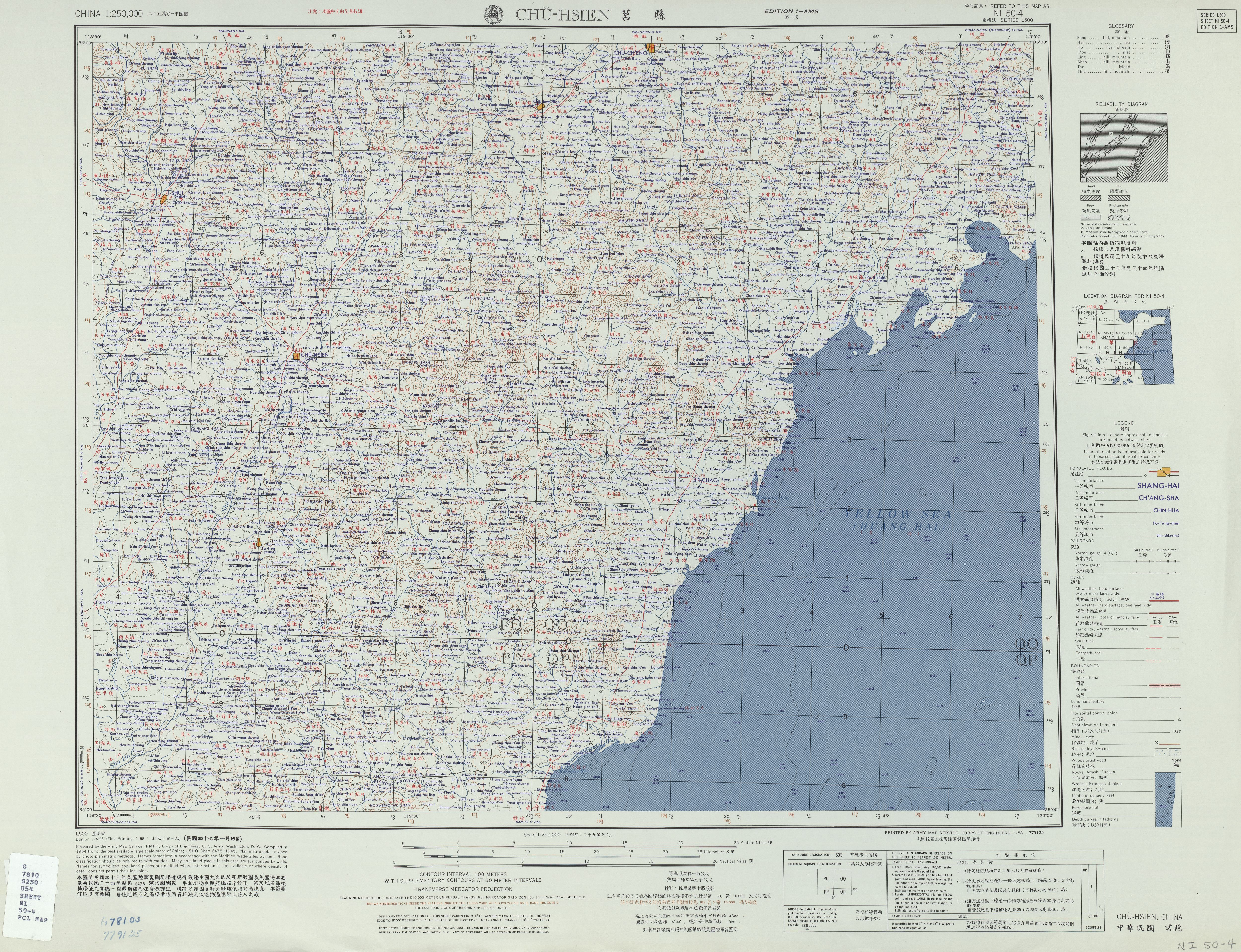 Map of the Ju County (Chü-hsien) area, Shandong